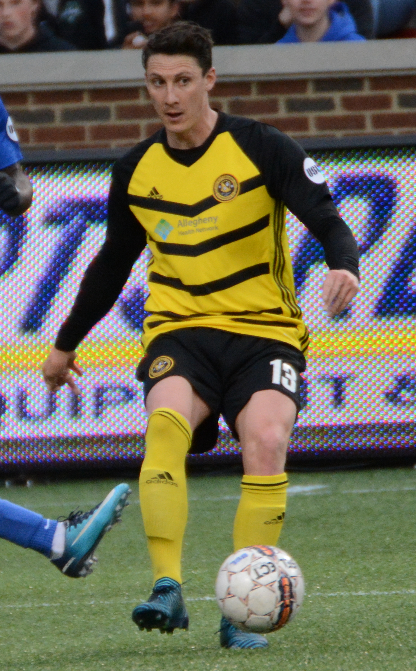 Taken during a USL regular season match between FC Cincinnati and Pittsburgh Riverhounds at Nippert Stadium in Cincinnati, USA on April 21, 2018.